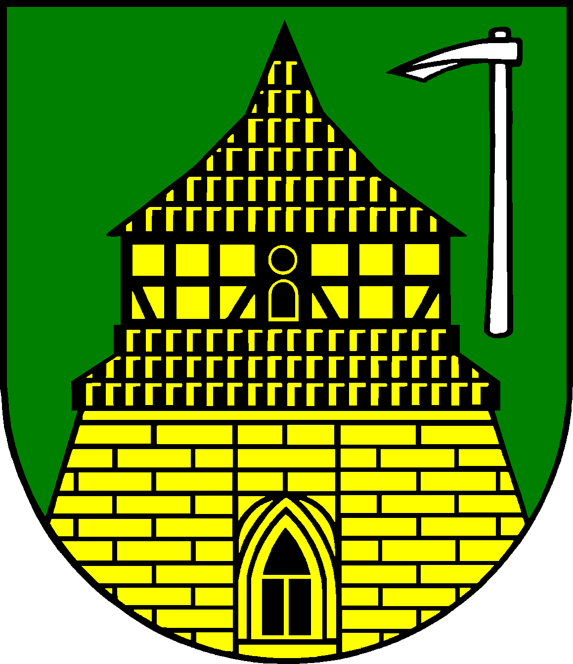 Coat of arms of the municipality Lütau in Schleswig-Holstein, Germany.